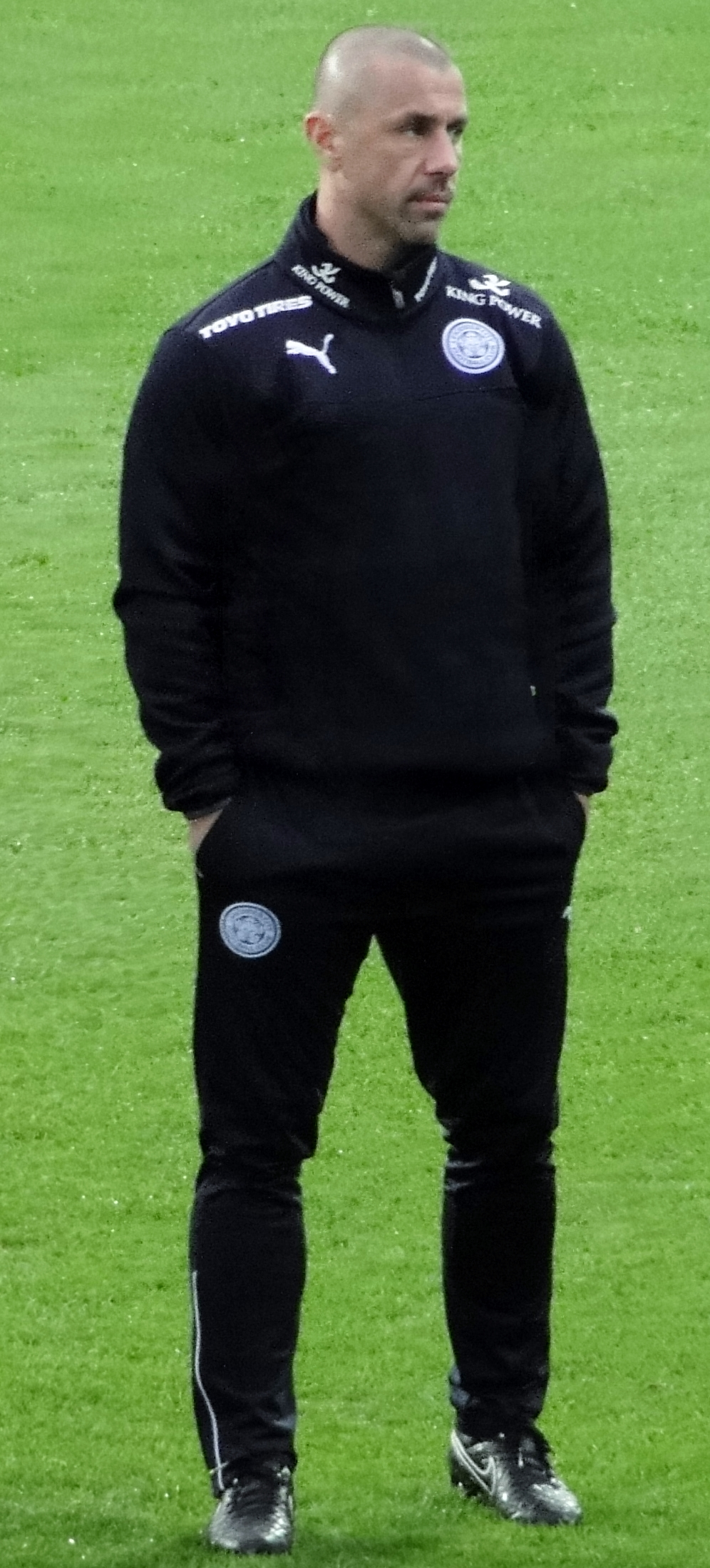 Former footballer Kevin Phillips as a Leicester City coach at the Boleyn Ground before their Premier League defeat to West Ham United.